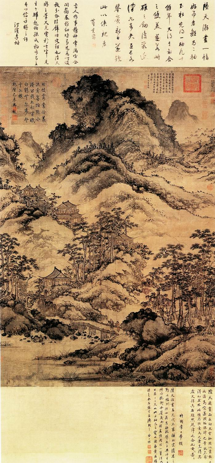 View of Immortal Mountain Tower (仙山樓觀圖). Hanging scroll. Color on silk. 137.5 cm x 95.4 cm. Located at the National Palace Museum, Taibei (台北故宮博物院藏). See: Zhongguo gu dai shu hua jian ding zu (中国古代书画鑑定组). 1997. Zhongguo hui hua quan ji (中国绘画全集). Zhongguo mei shu fen lei quan ji. Beijing: Wen wu chu ban she. Volume 8. Page 25.